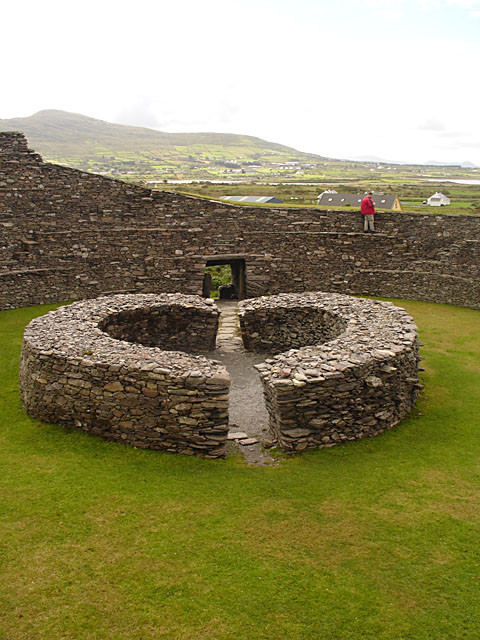 Cahergal Fort An impressive stone fort with a large dry stone wall. There are steps and terraces that allow you to climb to the top of the fort. In the centre of the fort is this circular dry-stone building.